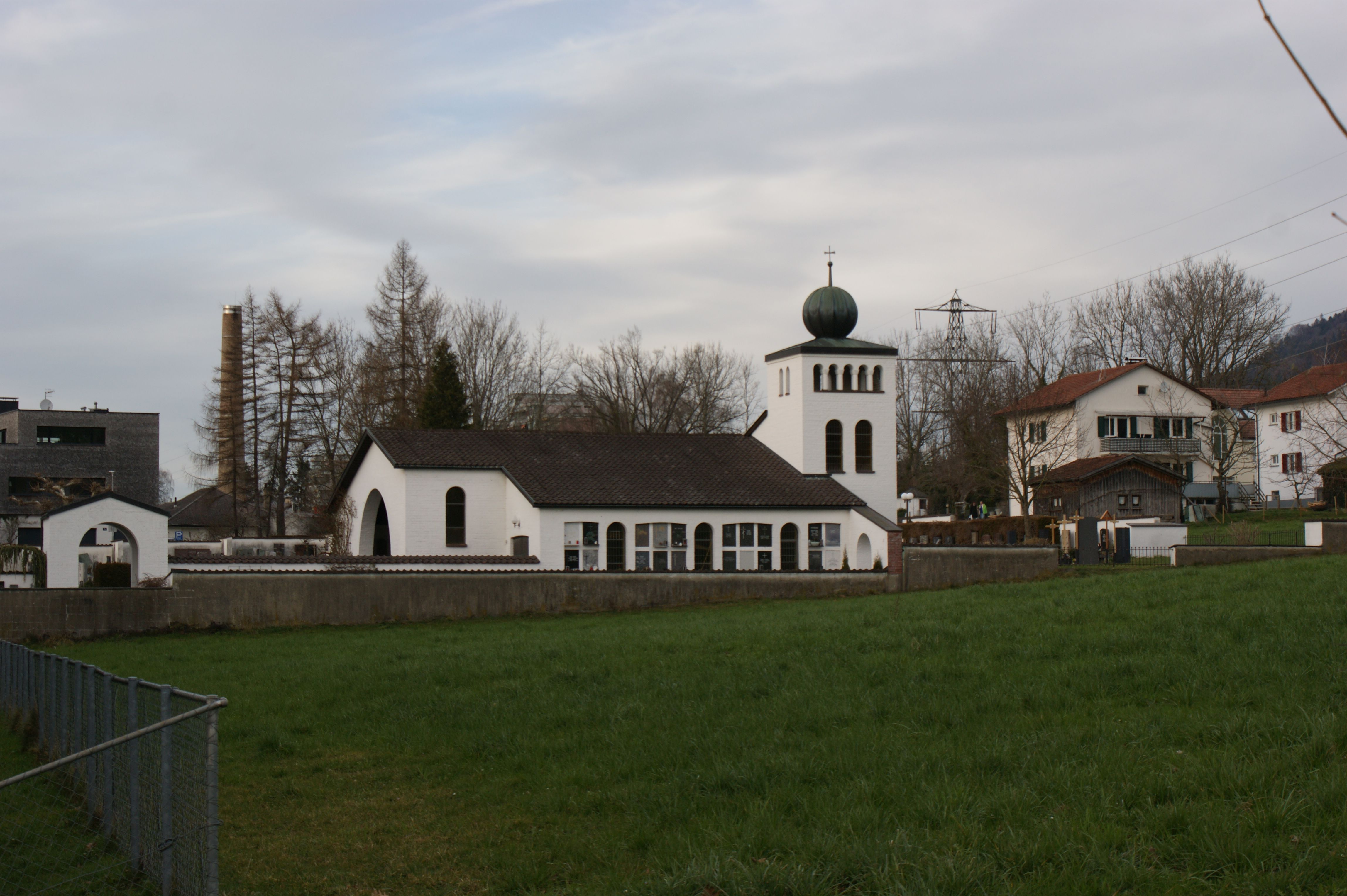 Chapels of rest in Lochau in Vorarlberg, Austria